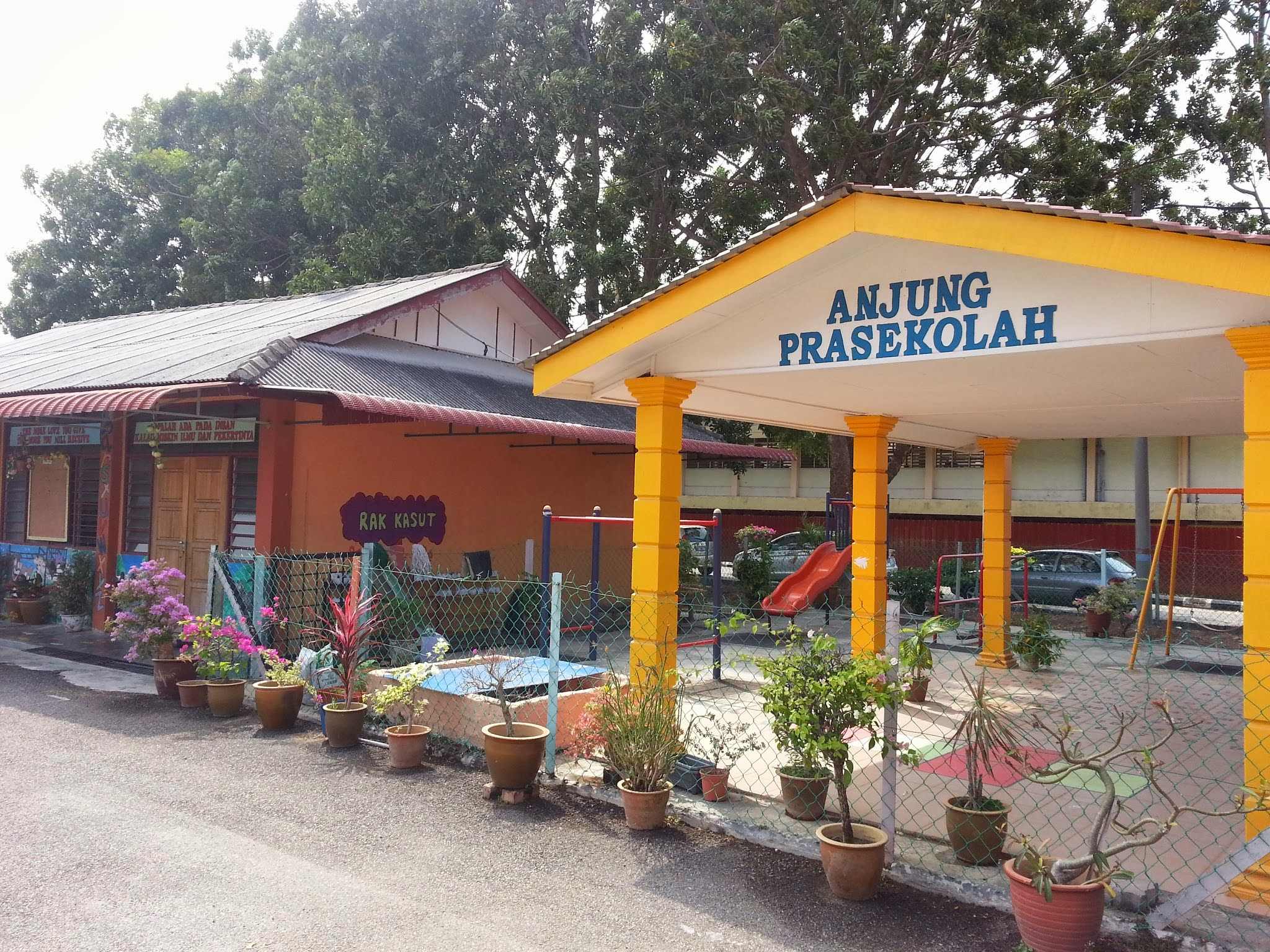 PRA SEKOLAH